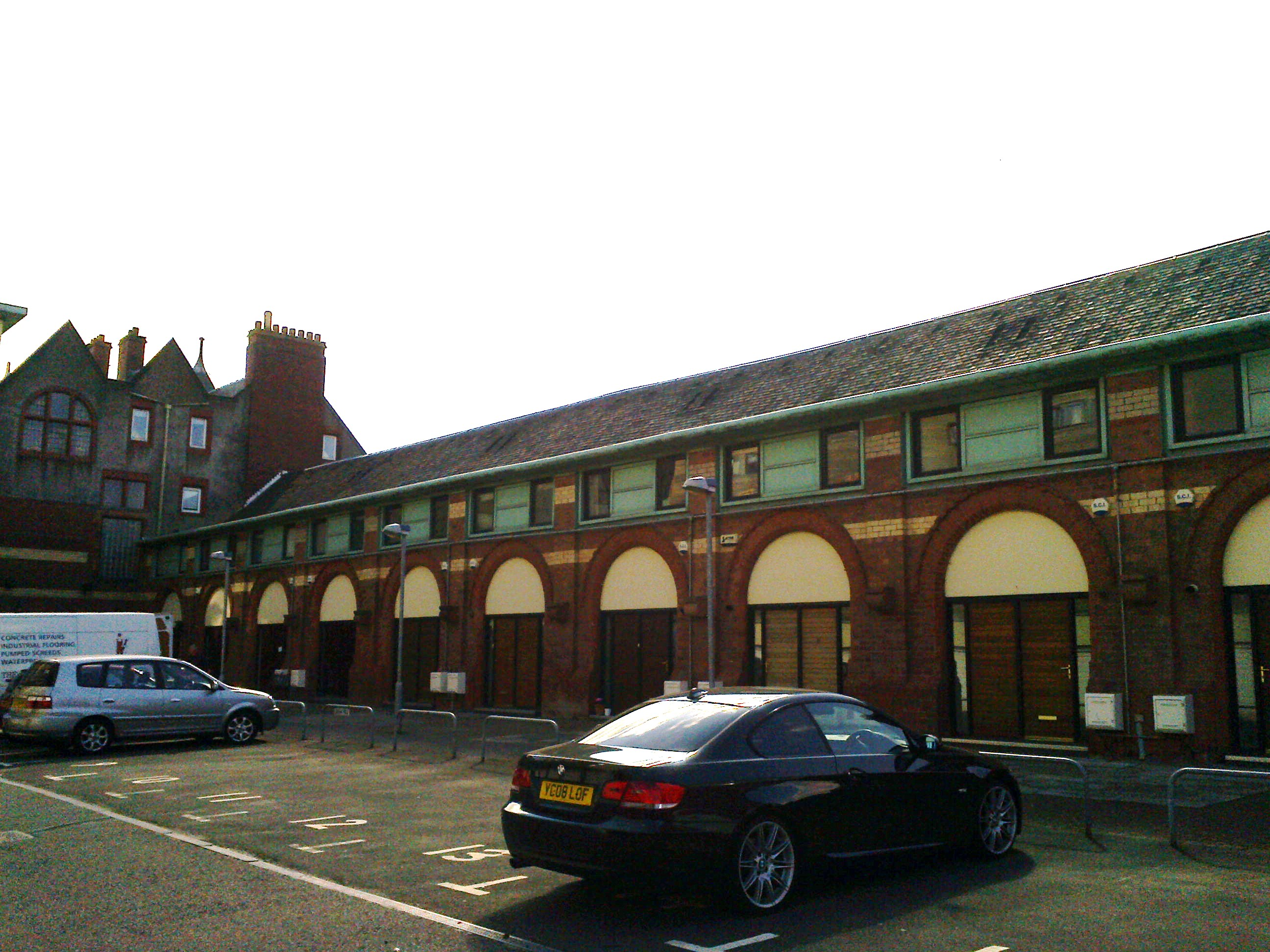 Industrial units in Carfrae Street, Glasgow